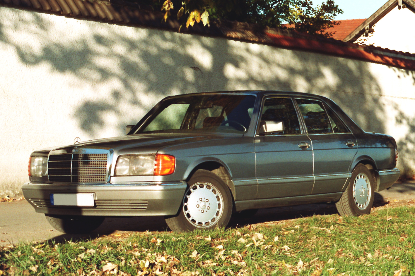 Mercedes-Benz W126 500SE photographed in Germany.